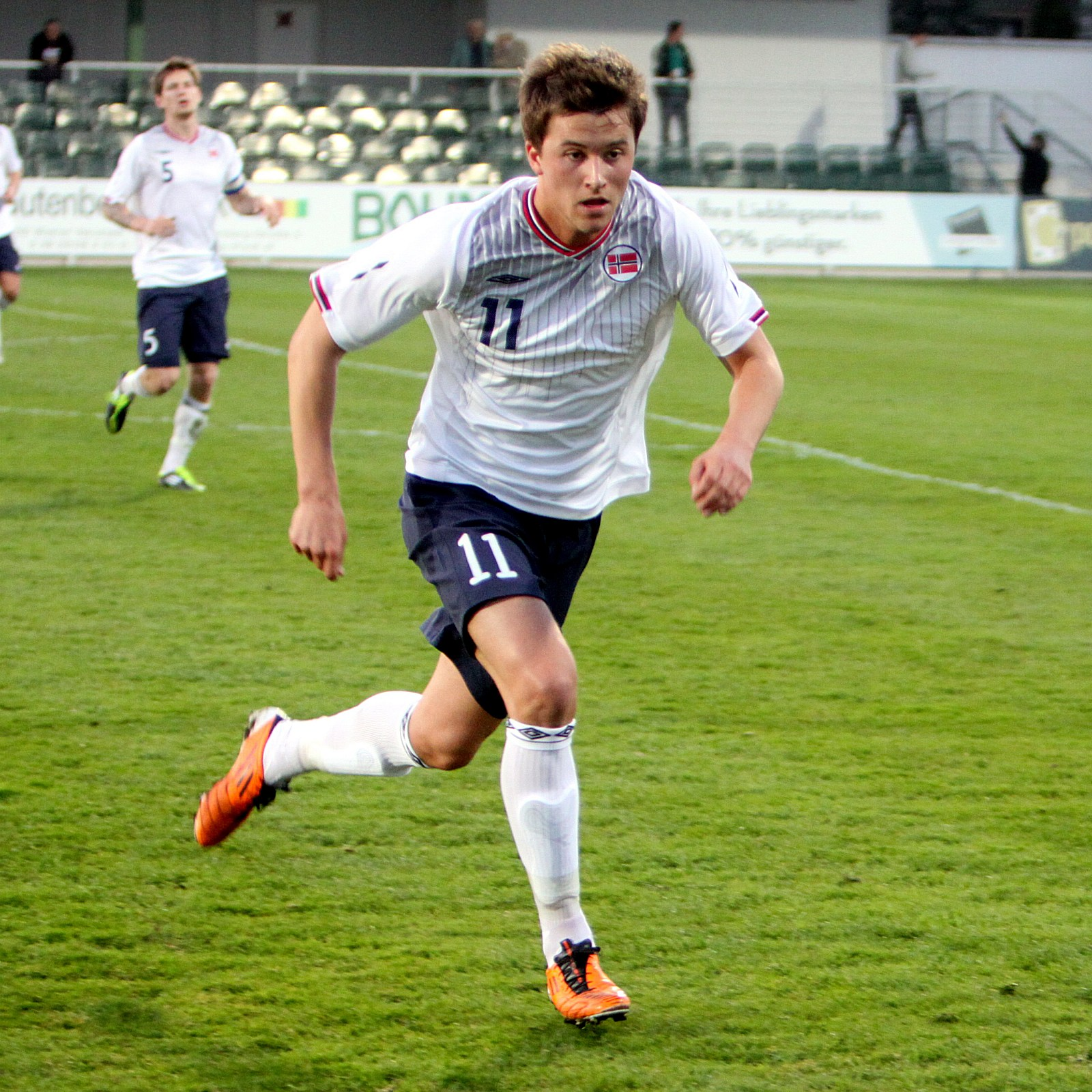 Stian Ringstad (Lillestrøm SK) in the Norway national under-21 football team, 2011-03-29